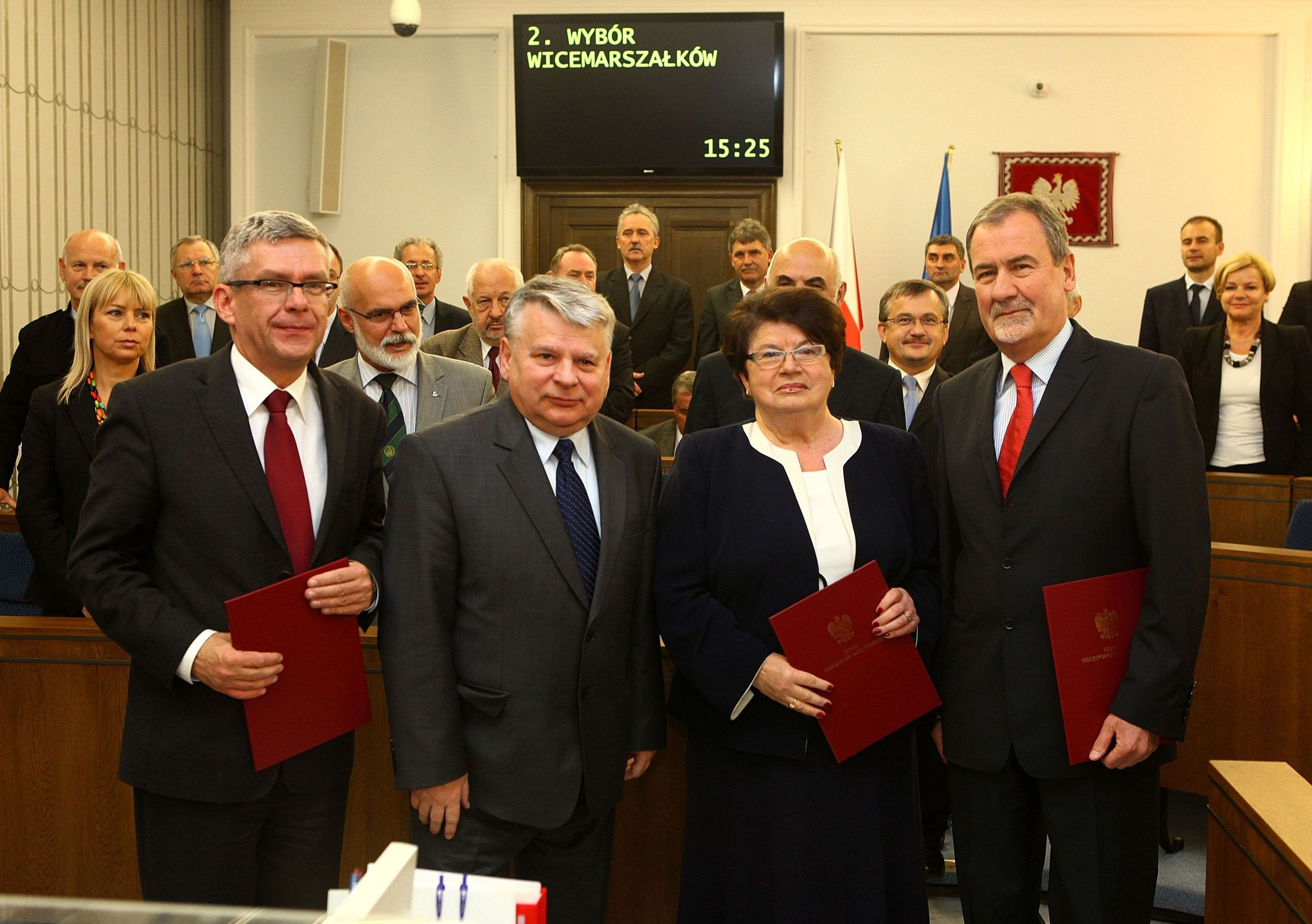 Presidium of the 8th term Senate of the Republic of Poland. Standing from the left: Stanisław Karczewski, Bogdan Borusewicz, Maria Pańczyk-Pozdziej i Jan Wyrowiński